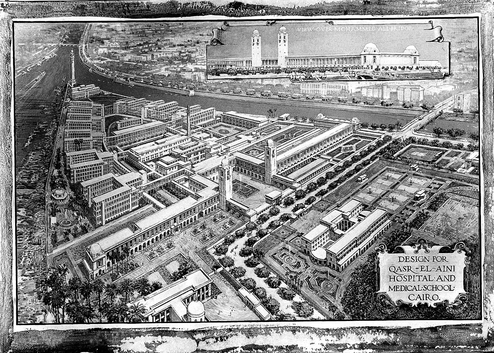 Qasr al-'Ayni Hospital and Medical School, Cairo: design for new buildings. Gouache after J. T. Cackett & R. Burns Dick, 1922. Iconographic Collections Keywords: Hospitals; Egypt; Cackett & Burns Dick.